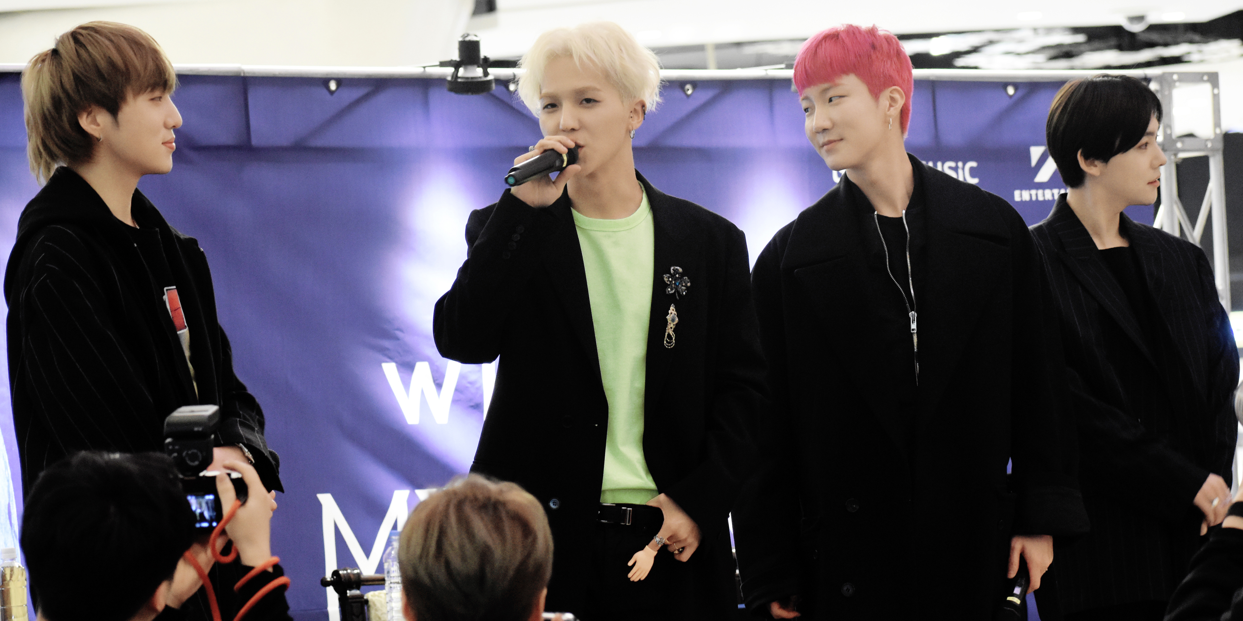 Winner at a fansign event at Lotte Department Store in Jamsil on December 29, 2018.